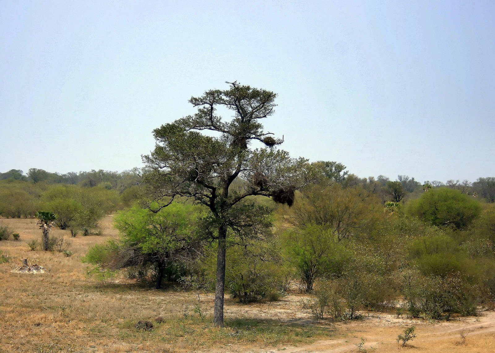 Tree in the Chaco.